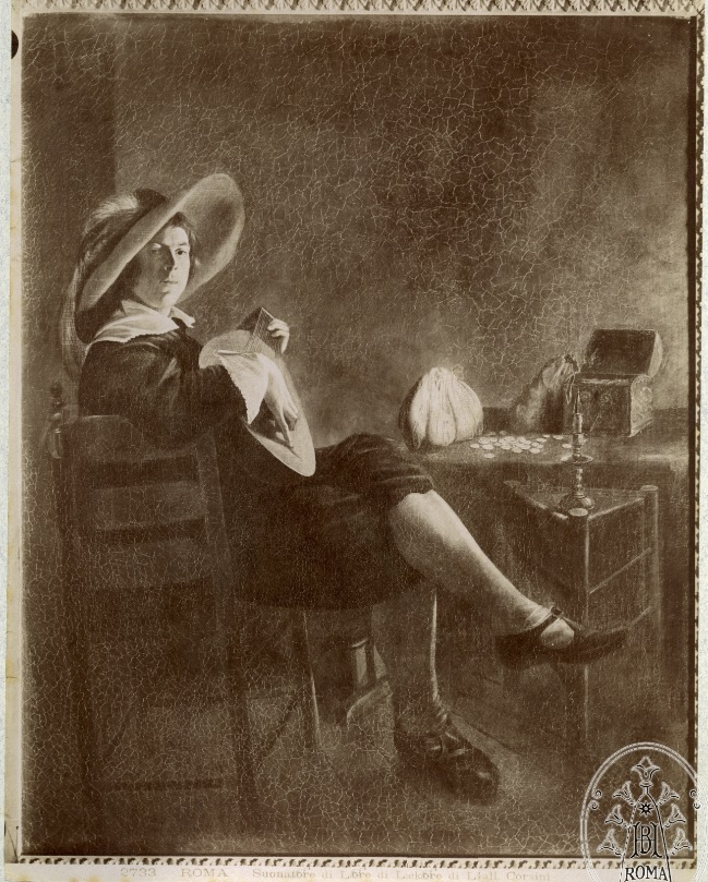 This image is available from the Netherlands Institute for Art Historyunder digital ID 199022. This tag does not indicate the copyright status of the attached work. A normal copyright tag is still required. See Commons:Licensing.